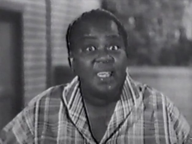 Screen shot from the first few minutes showing "Beulah" explaining that she spends most of her time in the kitchen, but never seems to know what's cooking. (There was a black streak running down the center of the image, healed as much as possible with GIMP).